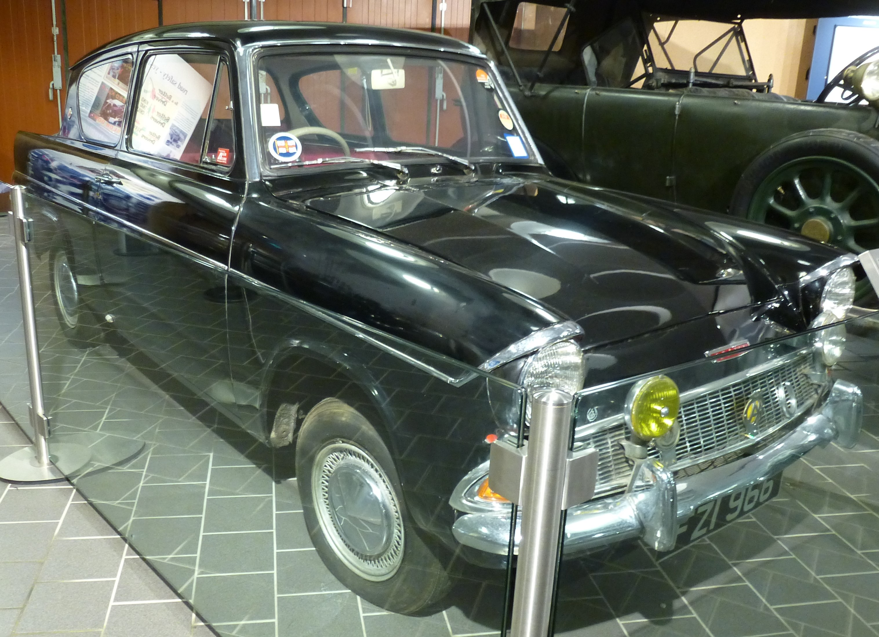 Ford New Anglia von Henry Ford & Son aus Irland